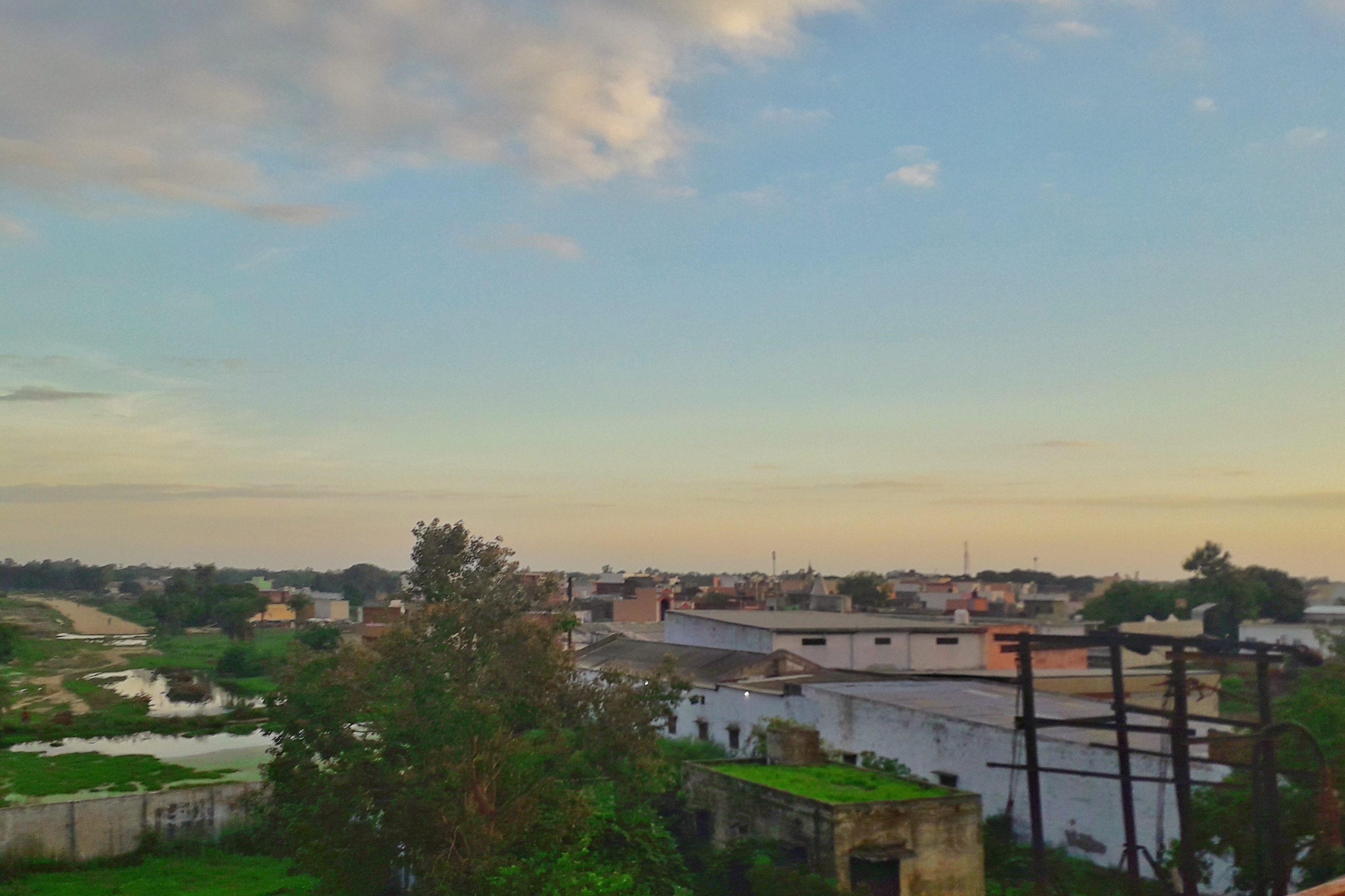 Bulandshahr Skyline